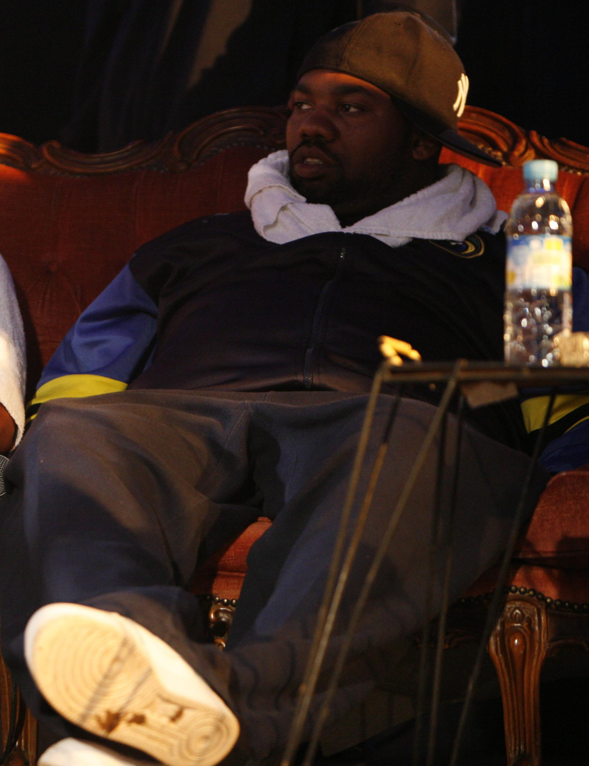 Raekwon the chef